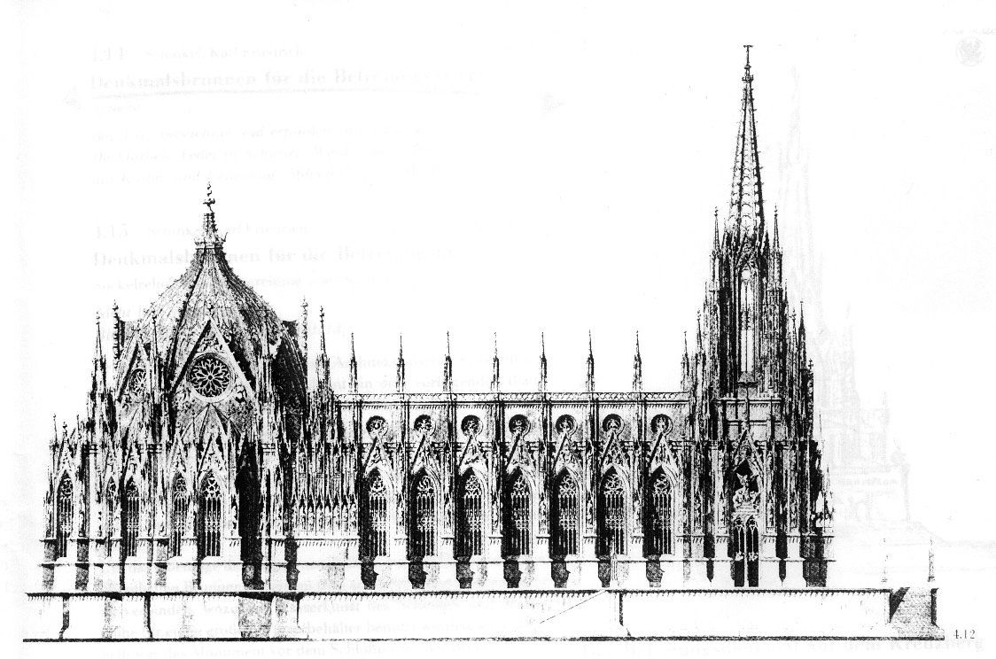 Project for a national German Cathedral in Berlin by the Prussian architect Karl Friedrich Schinkel. Unreleased. Celebrating German national identity after the military victory against France about 1814, so called Befreiungskriege (Feder, aquarelliert). Consciousness of national identity and history are the main feature of this kind of Gothic revival.